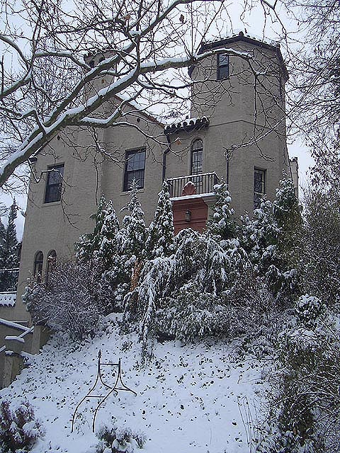 Fort Hill Castle, Staten Island